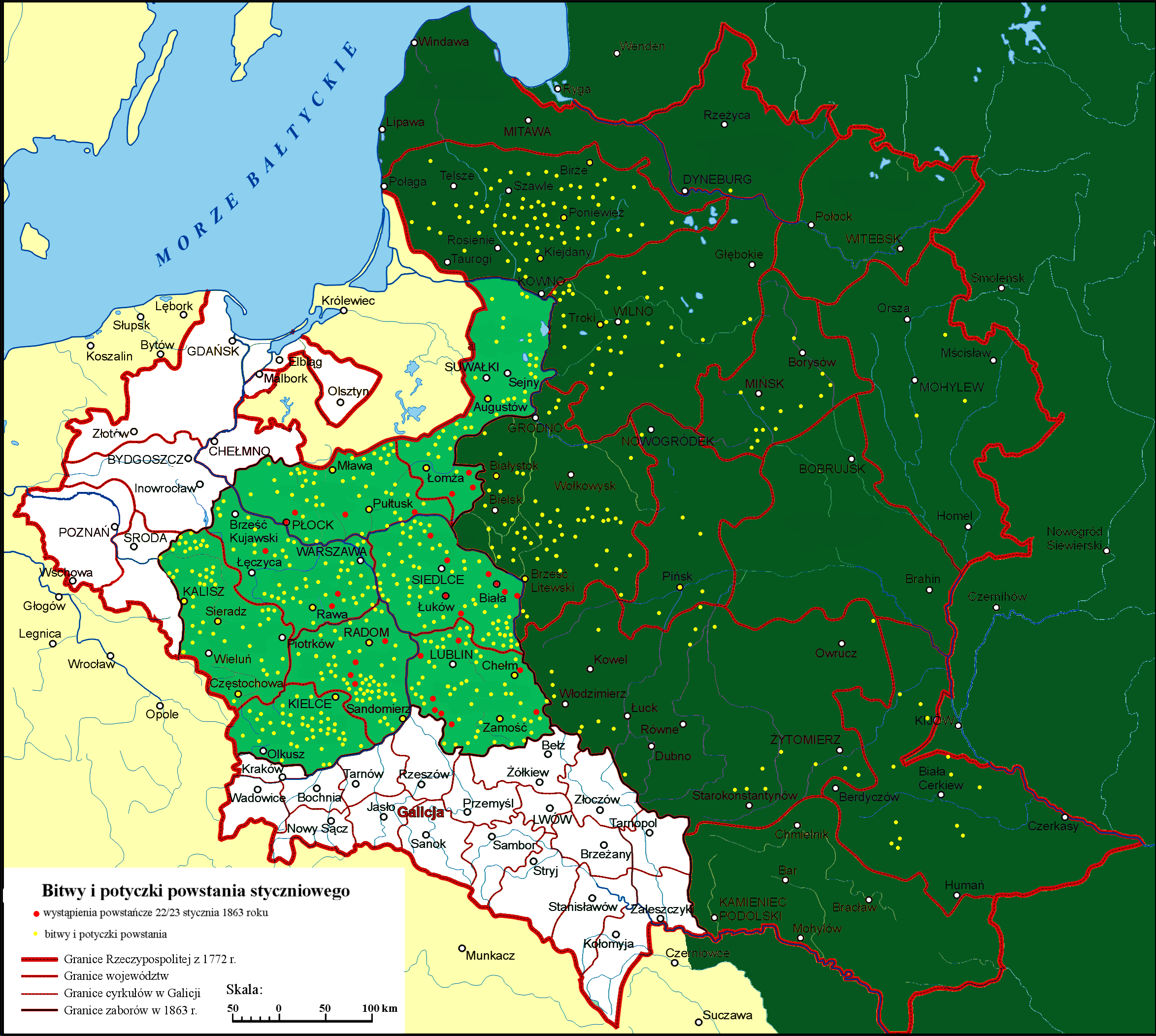 Battles and skirmishes of the January Uprising 1863-1864